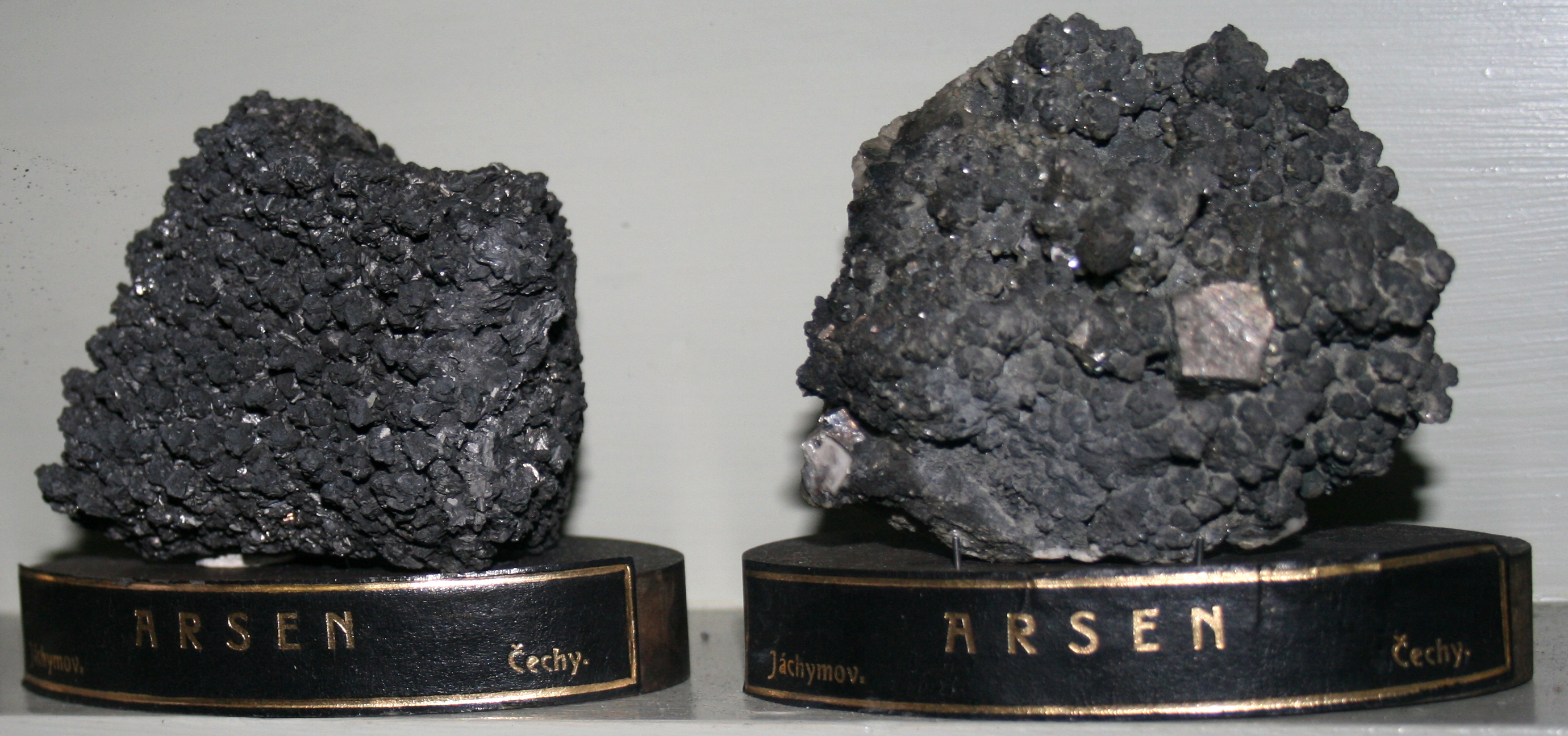 Mineral arsenic from collection of National Museum, Prague, Czech Republic, originally from Czech republic